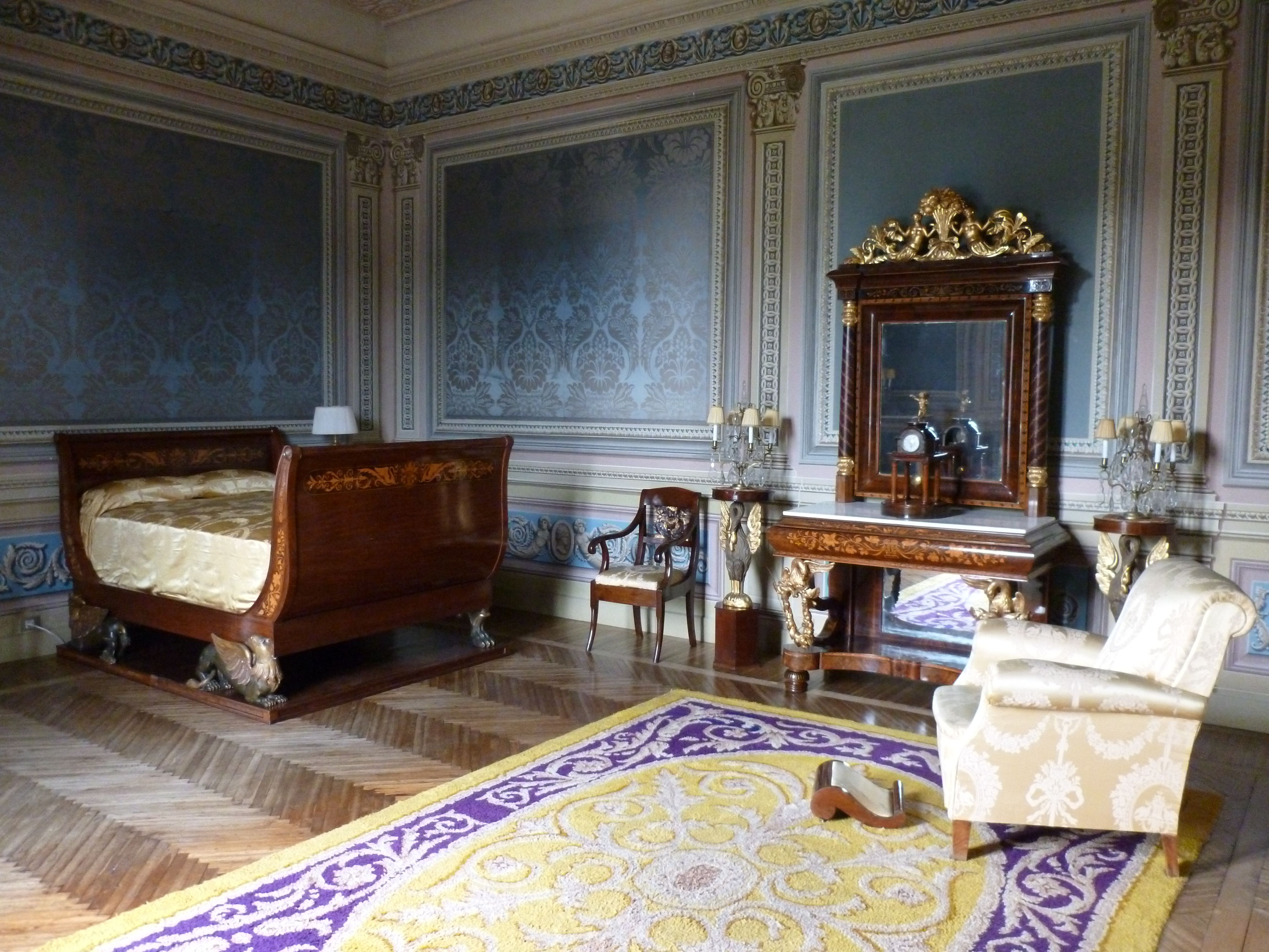 The Royal King's Chamber at the Palau de Pedralbes in Barcelona. DHUB - Picture: Josep Capsir